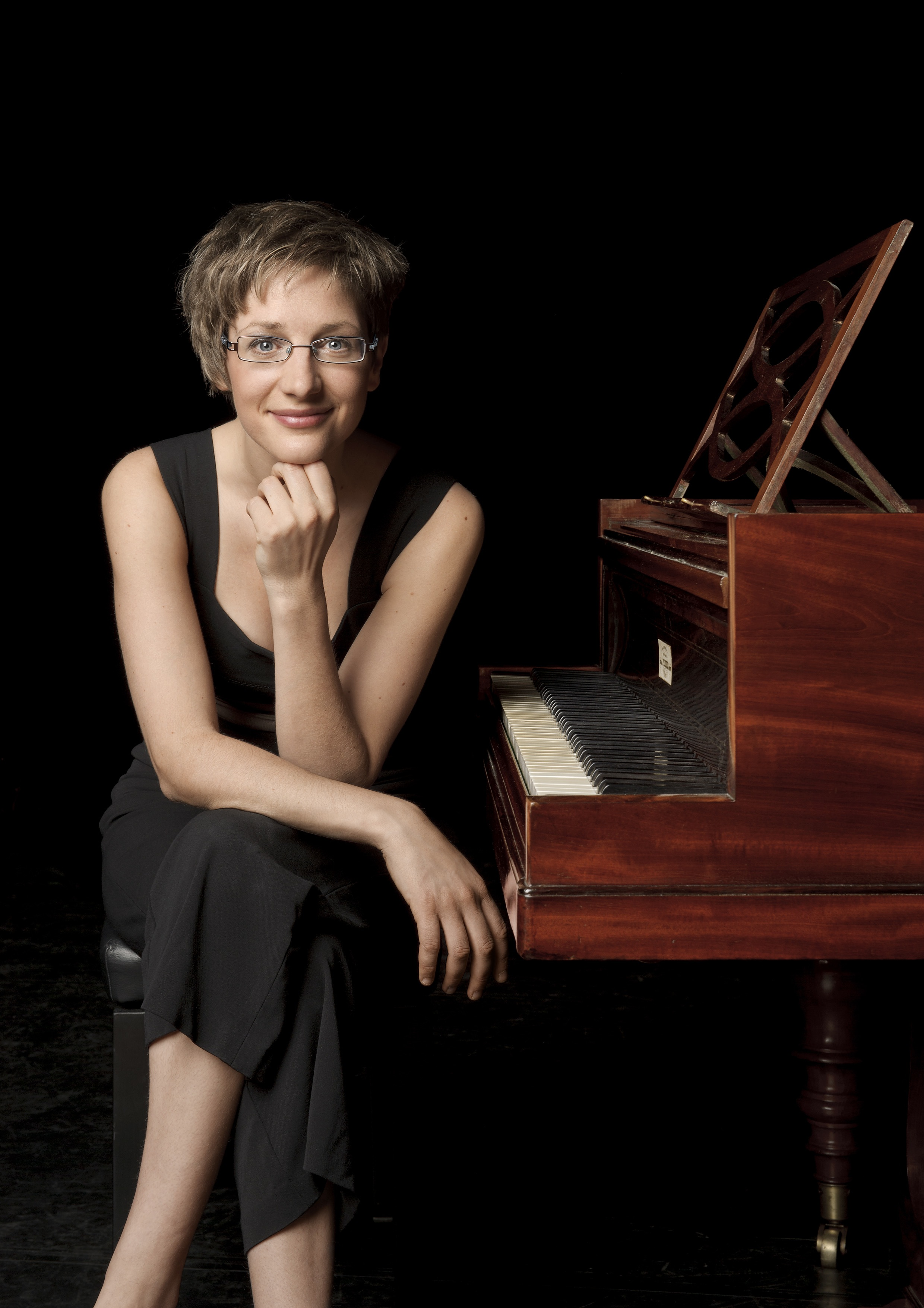 Els Biesemans at the pianoforte.